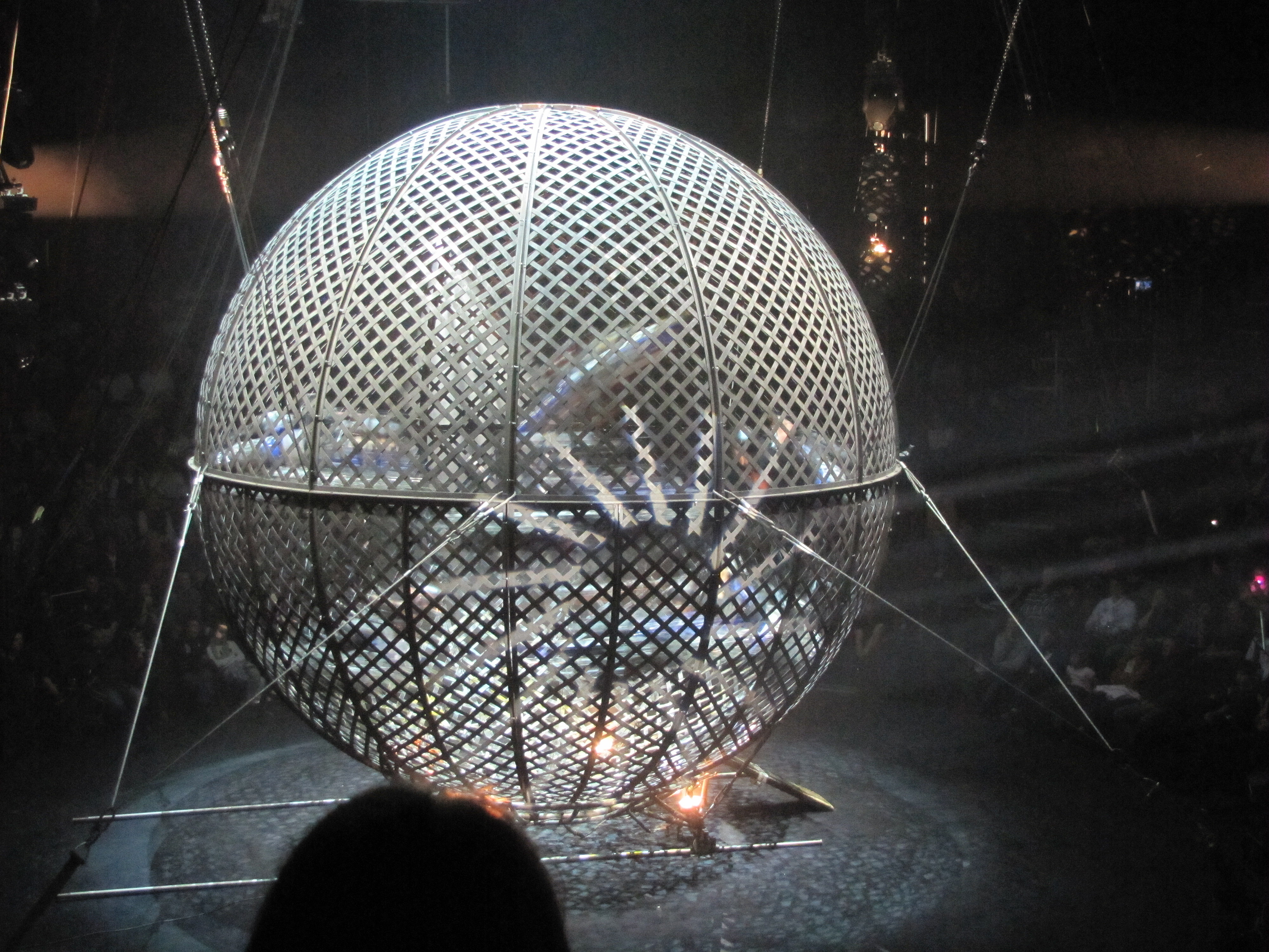 Globe of death performance, circus "Flic Flac", 2010 in Frankfurt am Main, Germany.